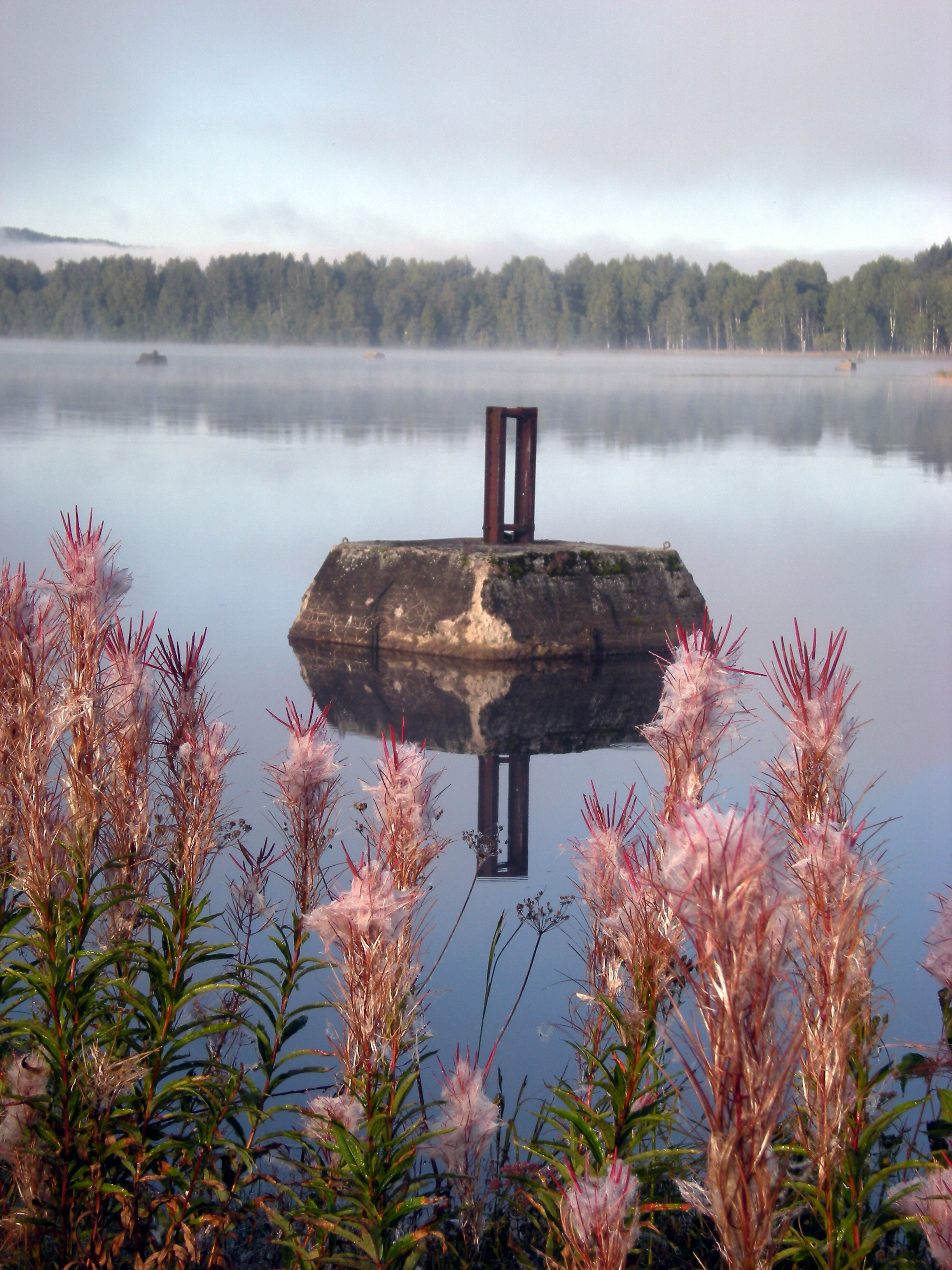 Bysjön, early morning. A small lake in Dalecarlia in Sweden near Borlänge.